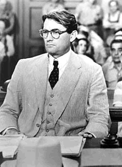 Promotional still from the film To Kill a Mockingbird (1962) with Gregory Peck and Brock Peters.